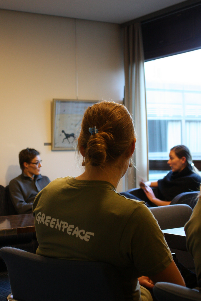 Greenpeace's climate campaigner Simo Kyllönen (left) discusses about carbon sinks with the special advisory of the contemporary Finnish environmental minister.